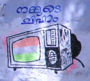 Photo: Soman